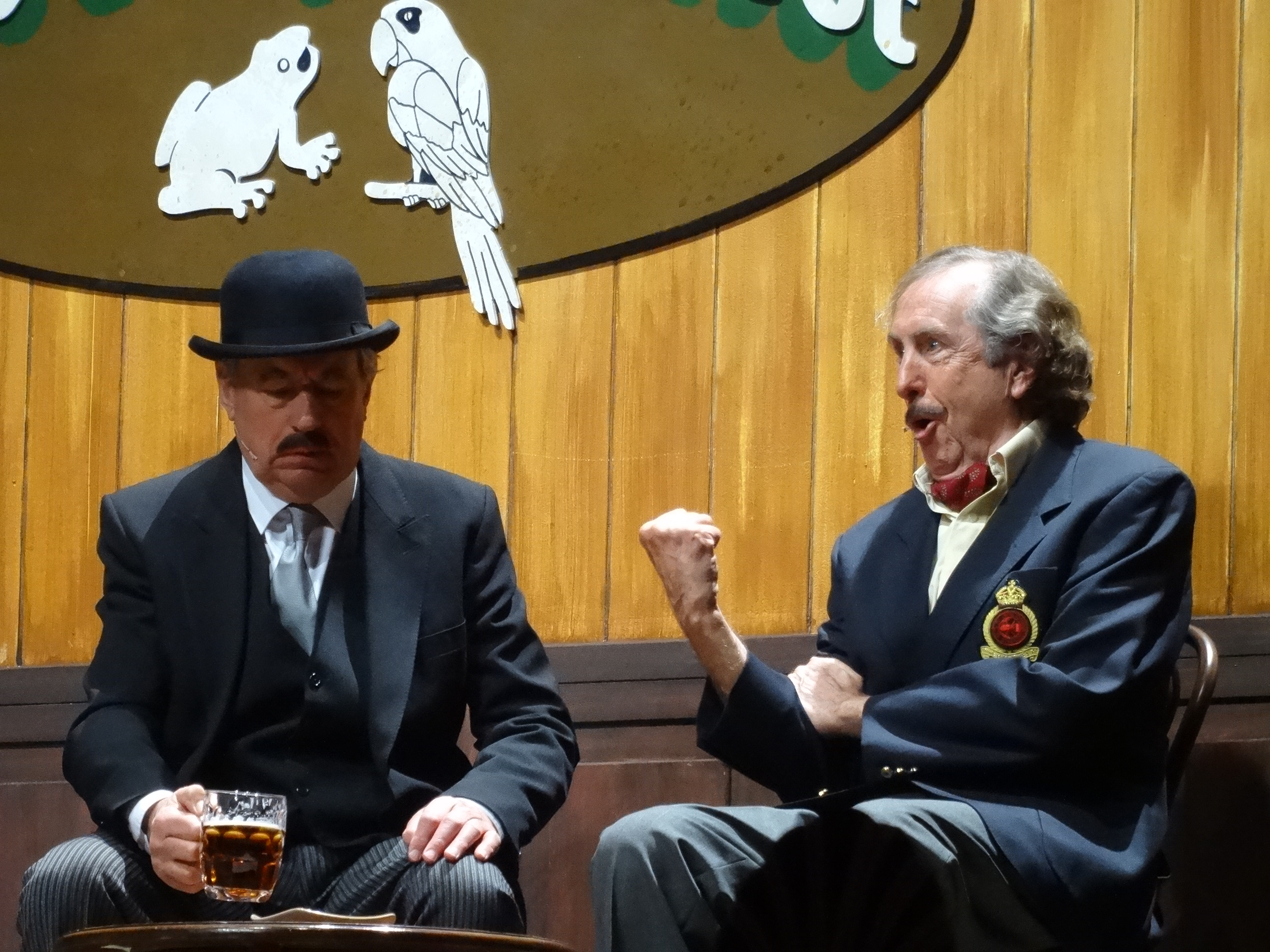 Terry Jones and Eric Idle performing the "Nudge, Nudge" sketch during the Monty Python Live (Mostly) show.